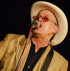 Billy "Harp" Hamilton performing live in Pulawy, Poland.